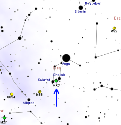 M57